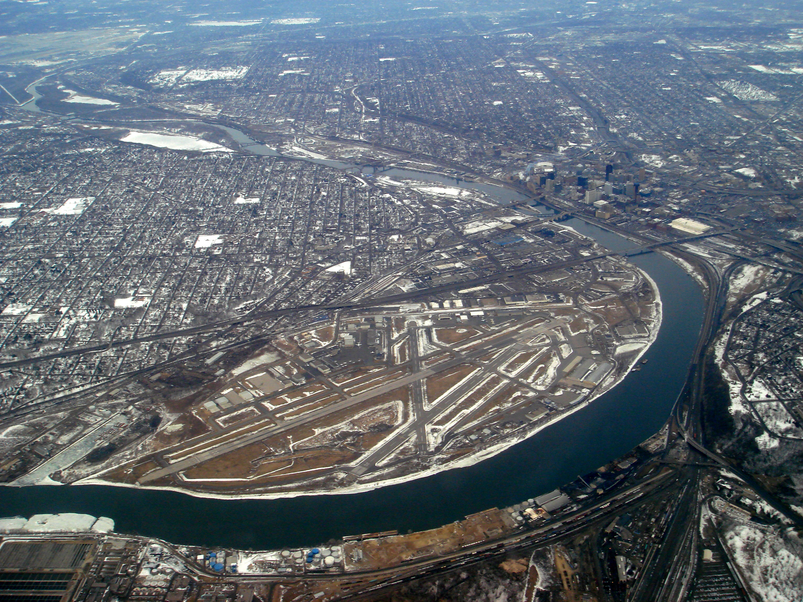 St. Paul Downtown Airport in St. Paul, Minnesota. The Mississippi River wraps around it. Downtown St. Paul is visible to the upper right of the airport. Minneapolis-Saint Paul International Airport (MSP) is visible to the top left (gray patch). The photo is taken approximately facing west.